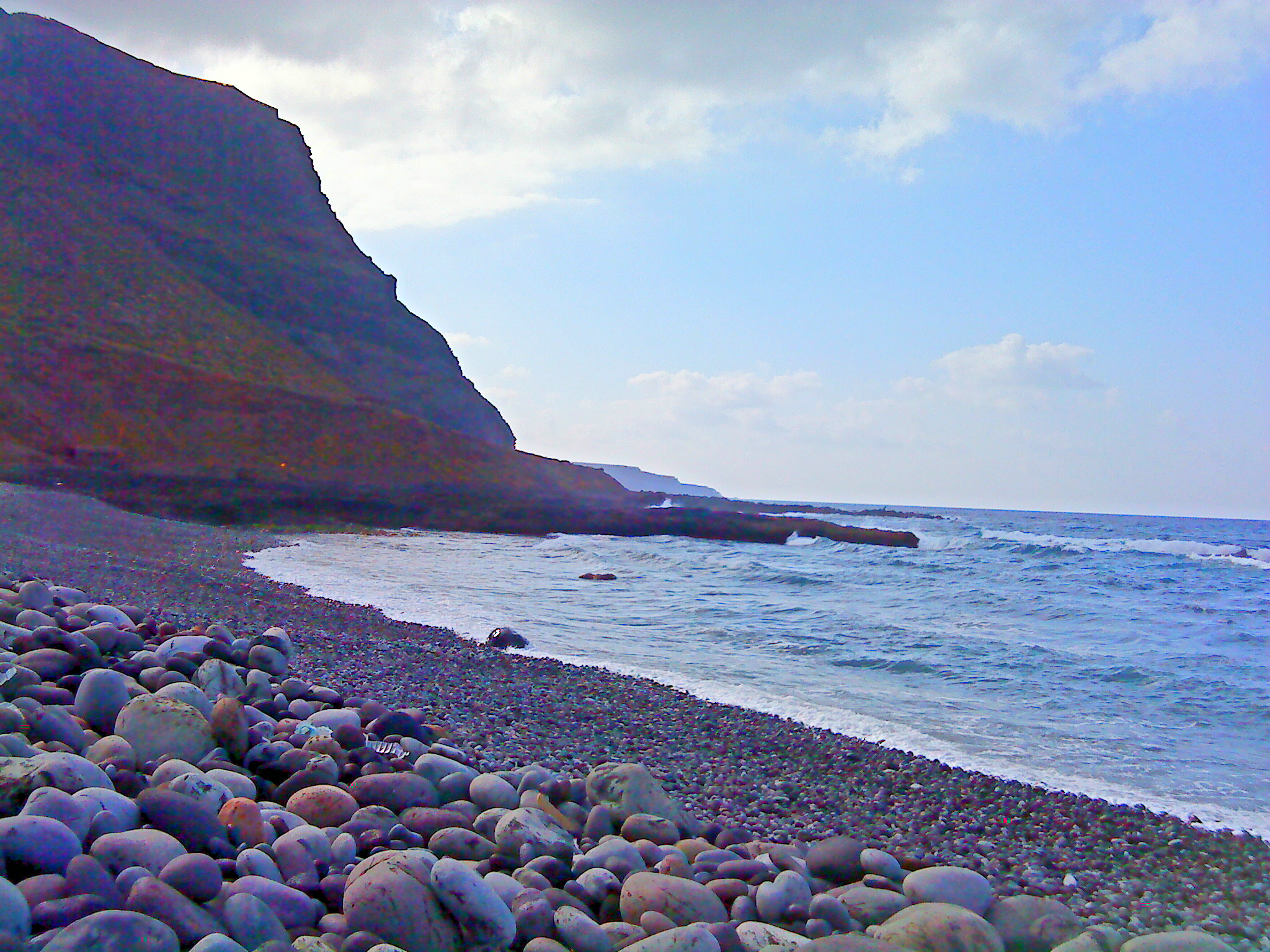 Vagabundos beach, Olones